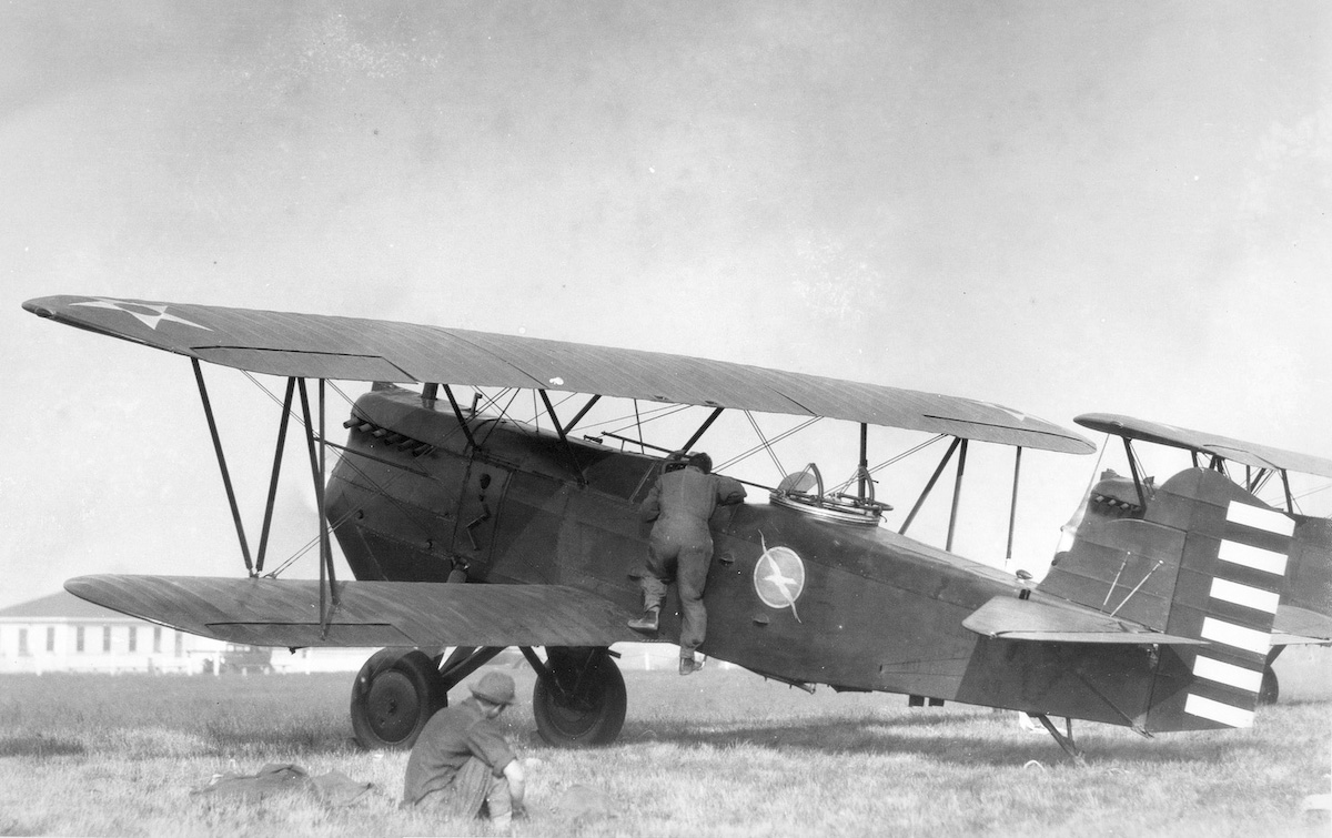 Curtiss O-11 of the 101st Observation Squadron.